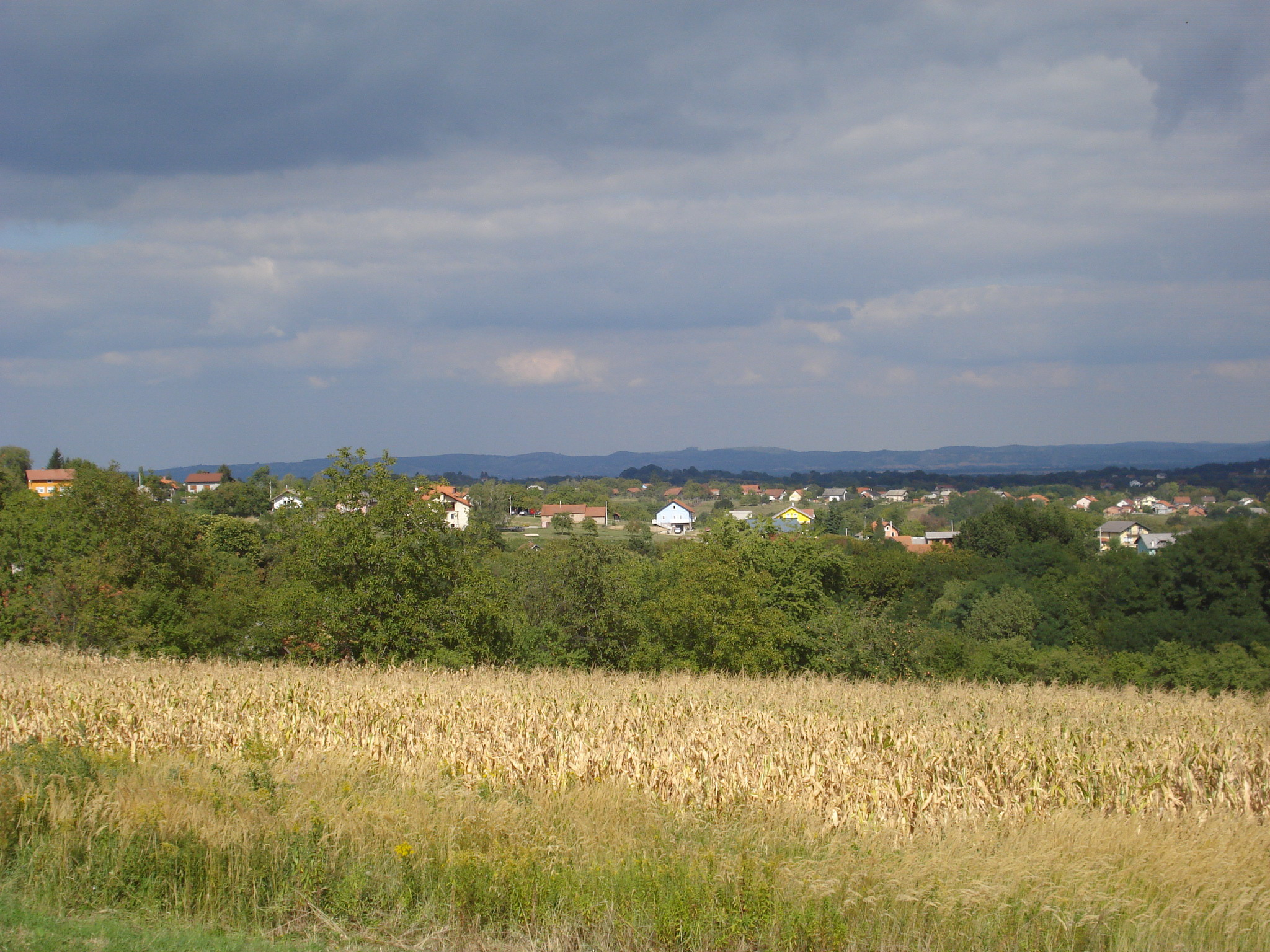 Panoramic view of the Pleškovec village, Medjimurje County, CroatiaHrvatski: Panoramski pogled na naselje Pleškovec, Međimurska županija, Hrvatska